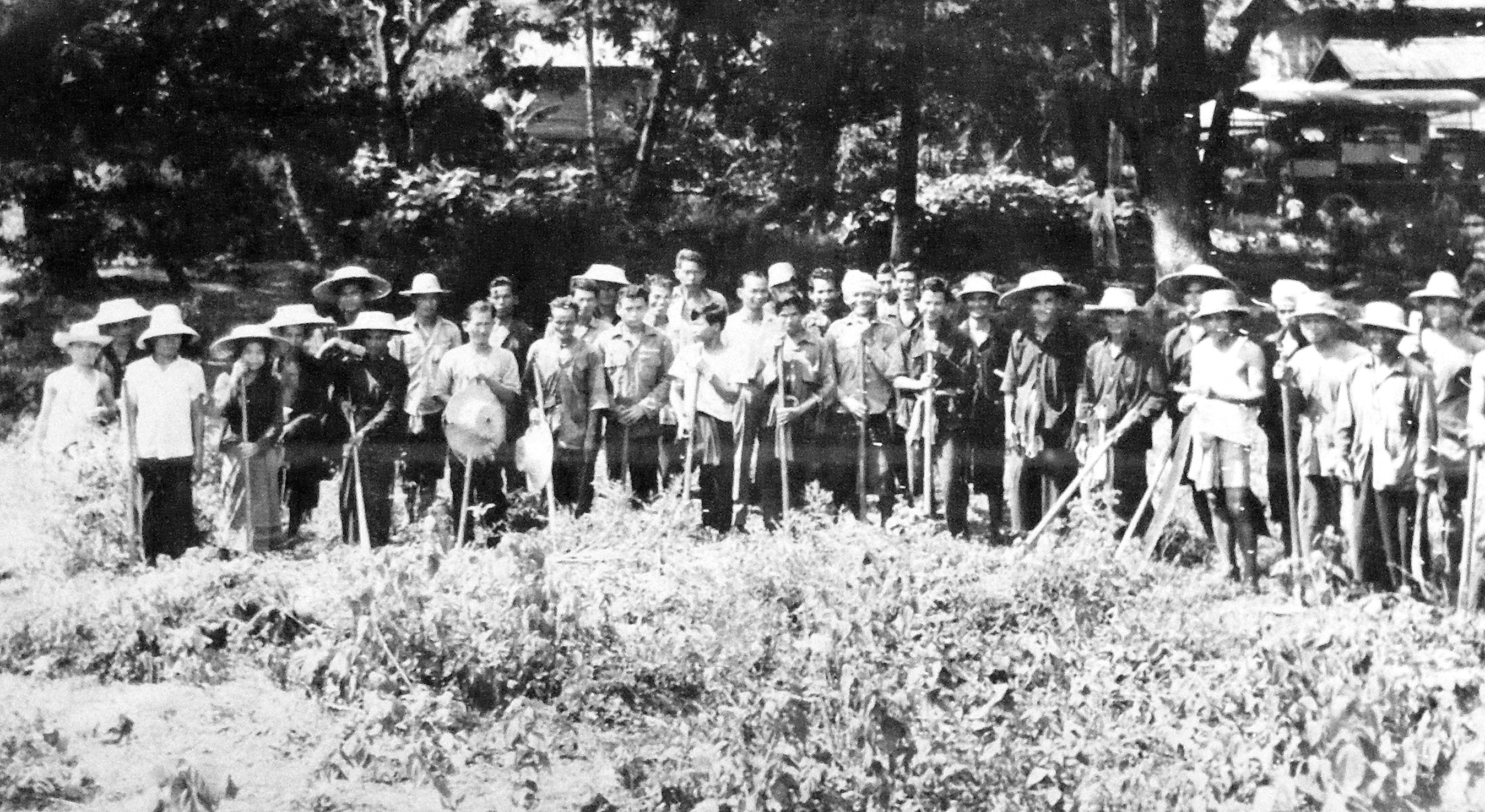 villagers is building Pa Khanun Charoen Witthaya School in Ban Pa Kanun, Khung Taphao subdistrict, Mueang Uttaradit, Uttaradit Province, Thailand.